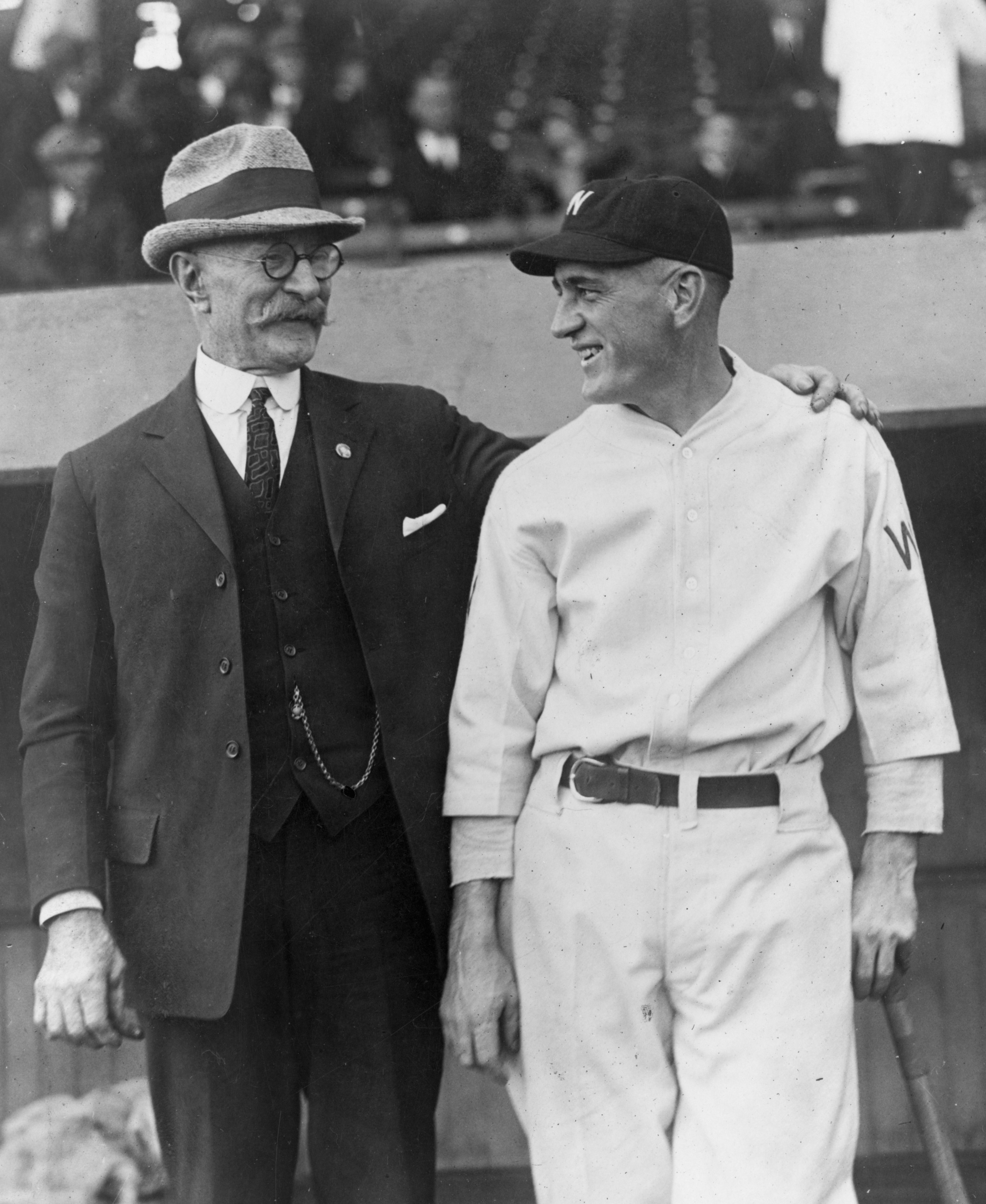 Title: Joe Judge and his father at the World Series baseball game, Washington, D.C., 1924 Abstract/medium: 1 photographic print.